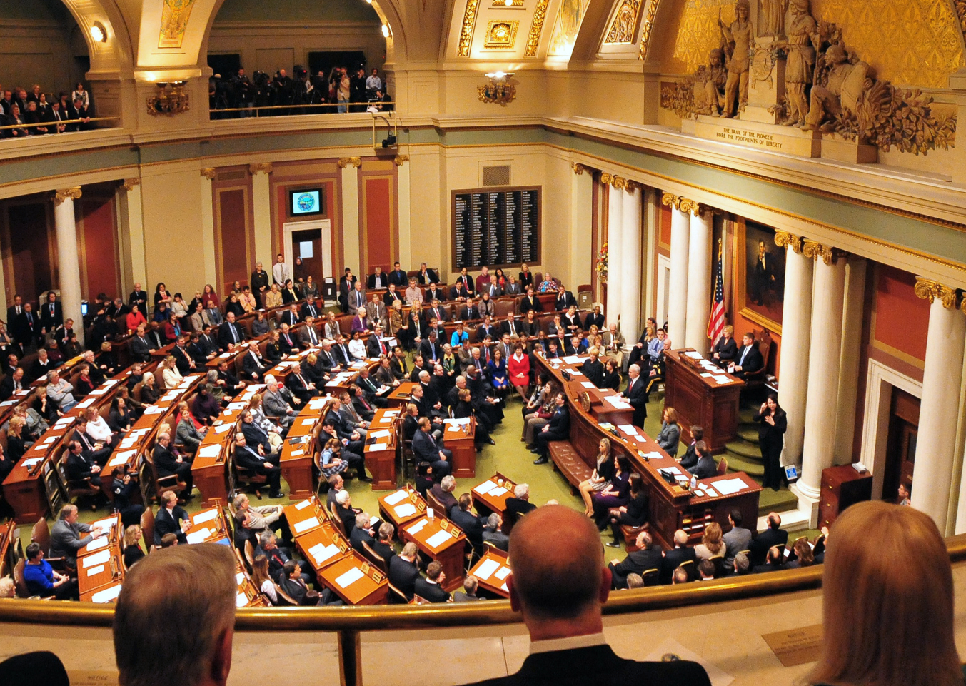 Governor Mark Dayton delivers his first State of the State address to a Joint Session of the Minnesota Legislature, laying out his vision for a better Minnesota.